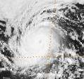 Hurricane Julio near peak strength on 1990-08-21